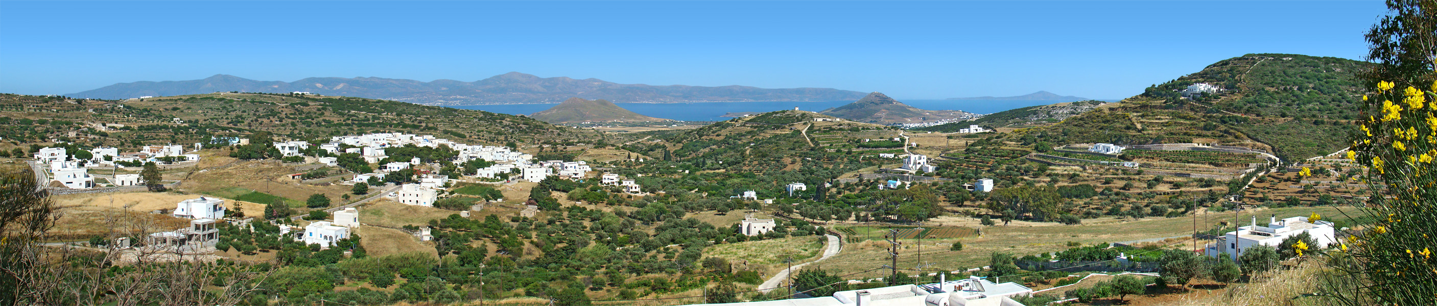 Kostos, Paros, Greece. In the background, the neighbouring island of Naxos.